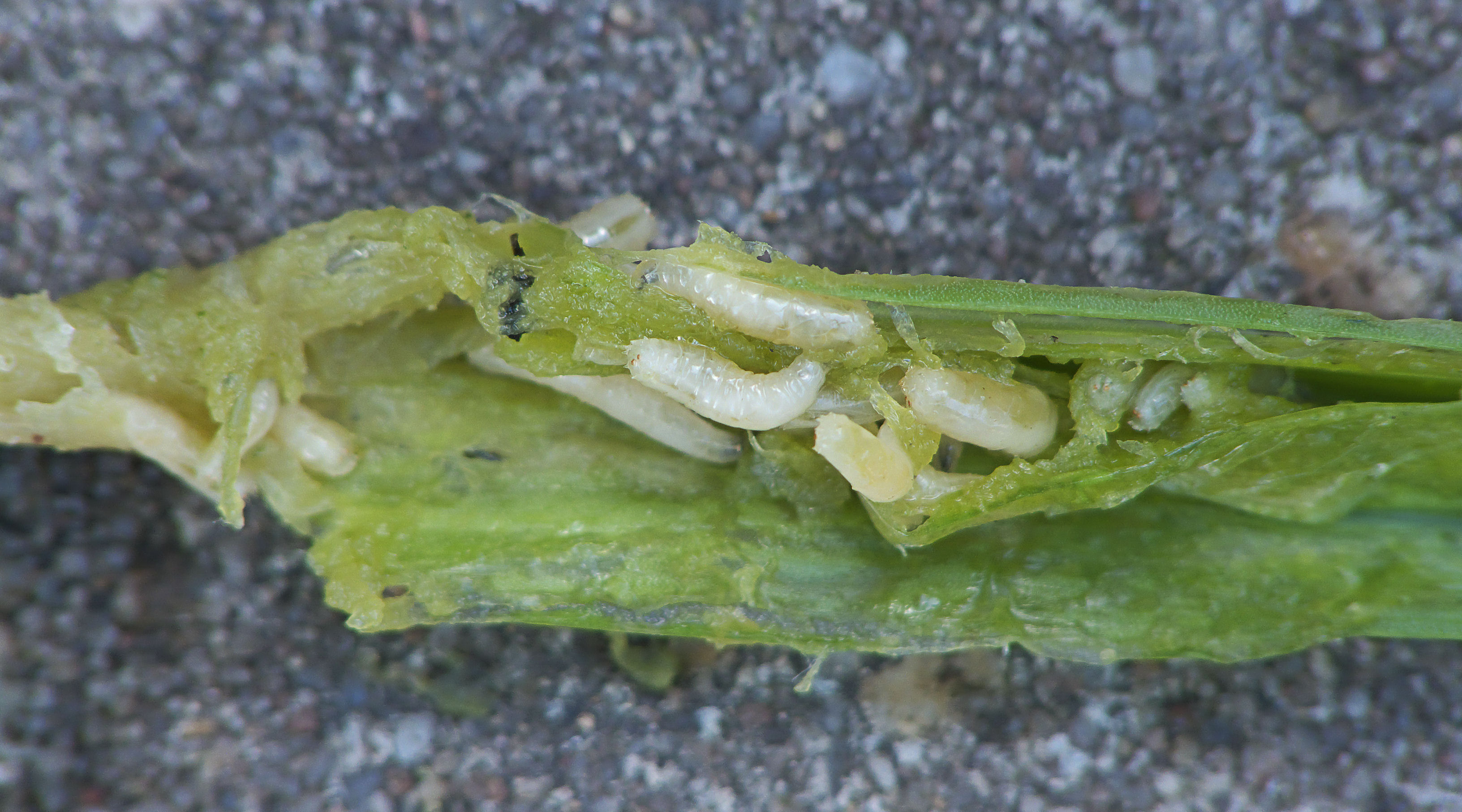 Delia antiqua maggots at Allium porrum